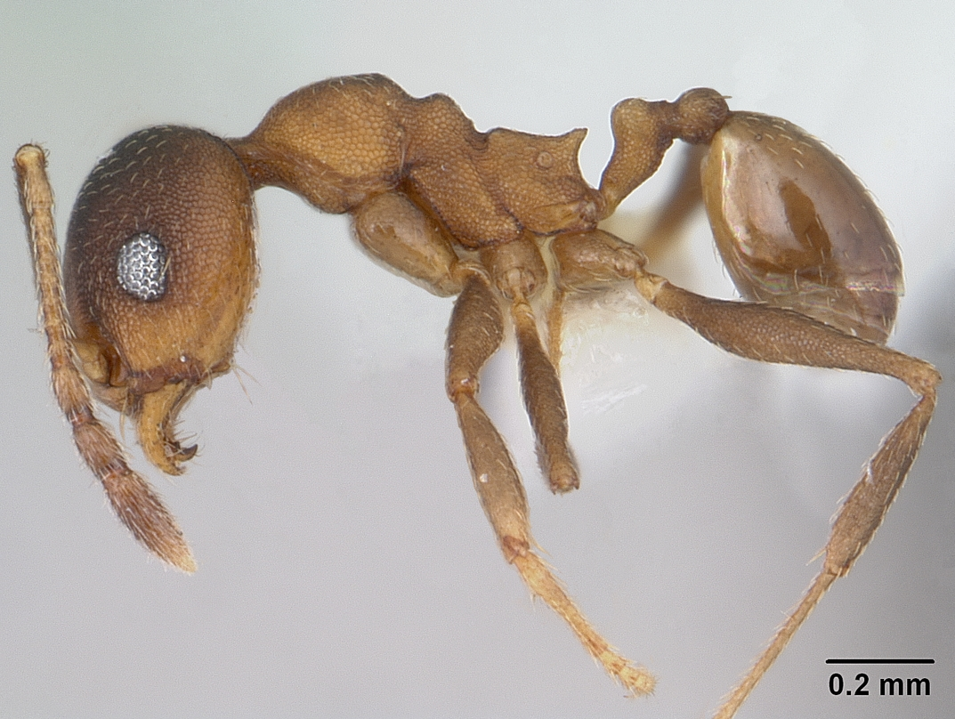 Profile view of ant Pheidole radoszkowskii specimen casent0178046.